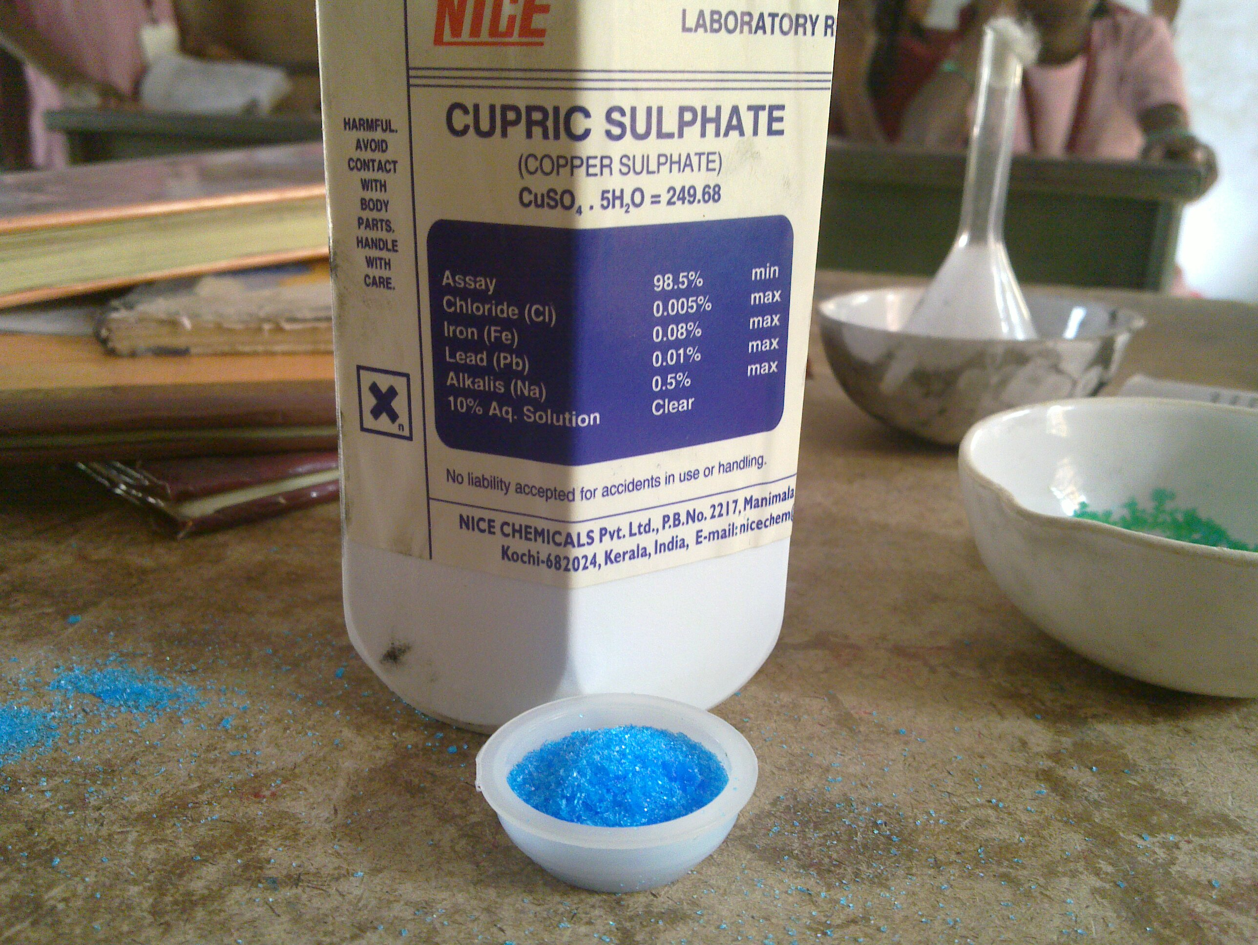 cupric sulphate, copper sulphate CuSO4·5H2O, NICE Chemicals